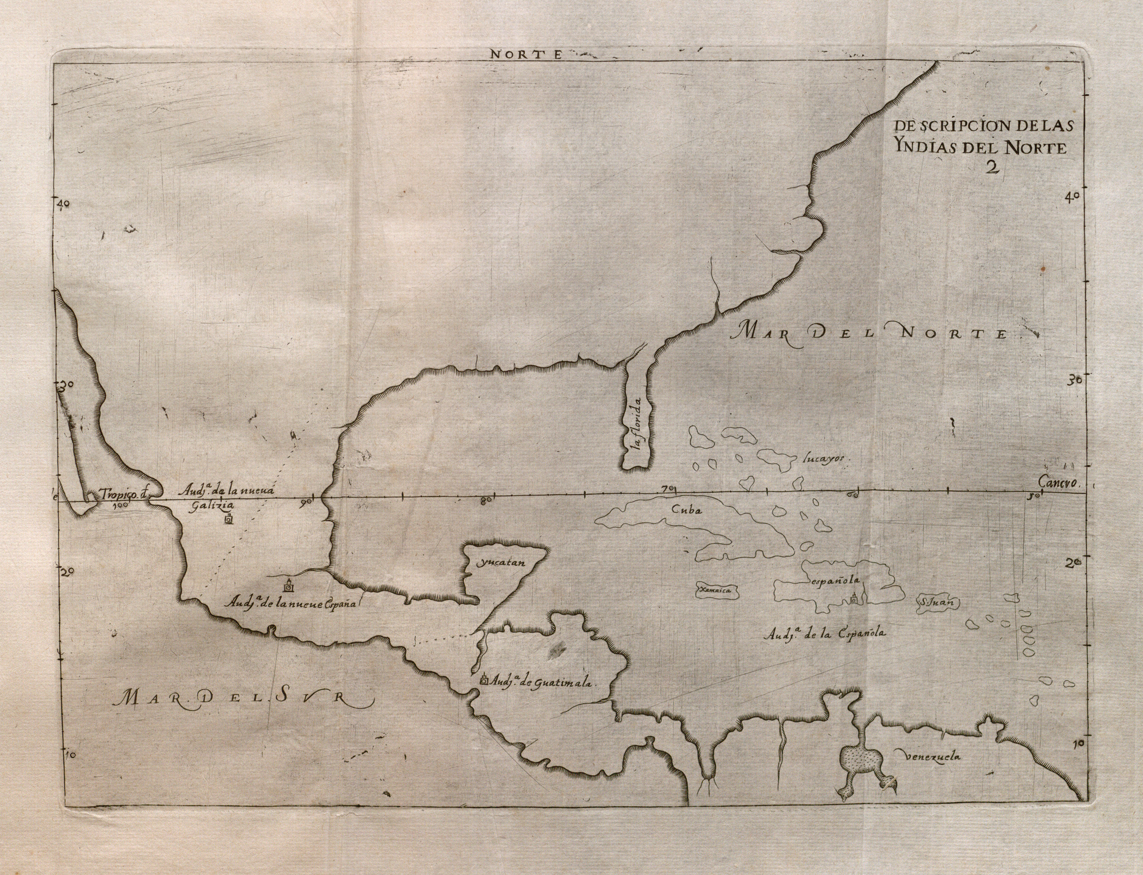 Spain's official history of the discovery, conquest, and colonization of the Indies at the end of the sixteenth century includes maps of which this is the only one to show much of the area that eventually became the United States. Although the Spanish had considerable cartographic knowledge of the Indies, Philip II's historian Antonio Herrera y Tordesillas oversaw the production of simple, schematic printed maps such as this to give only general ideas of Spain’s extensive claims without divulging "secret" information to her enemies worldwide.